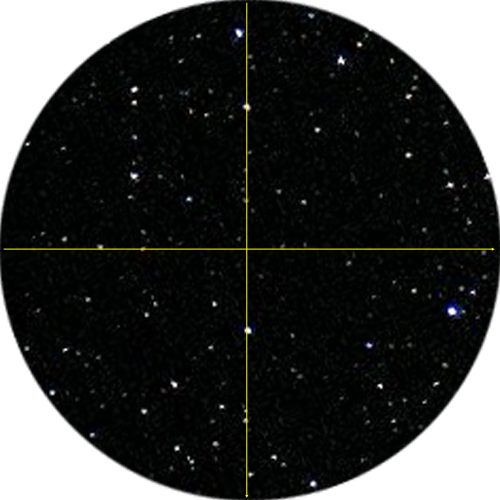 Star field (2°, Vul) and 2 star transits (illuminated crosshair) magnification ~10, possible timing accuracy 0,3-0,5 sec Source: own drawing Geof , 27 Jan 2005 see also german: Sterndurchgang Bild:Sternfeld2°Fäden-21vul.png Licensing